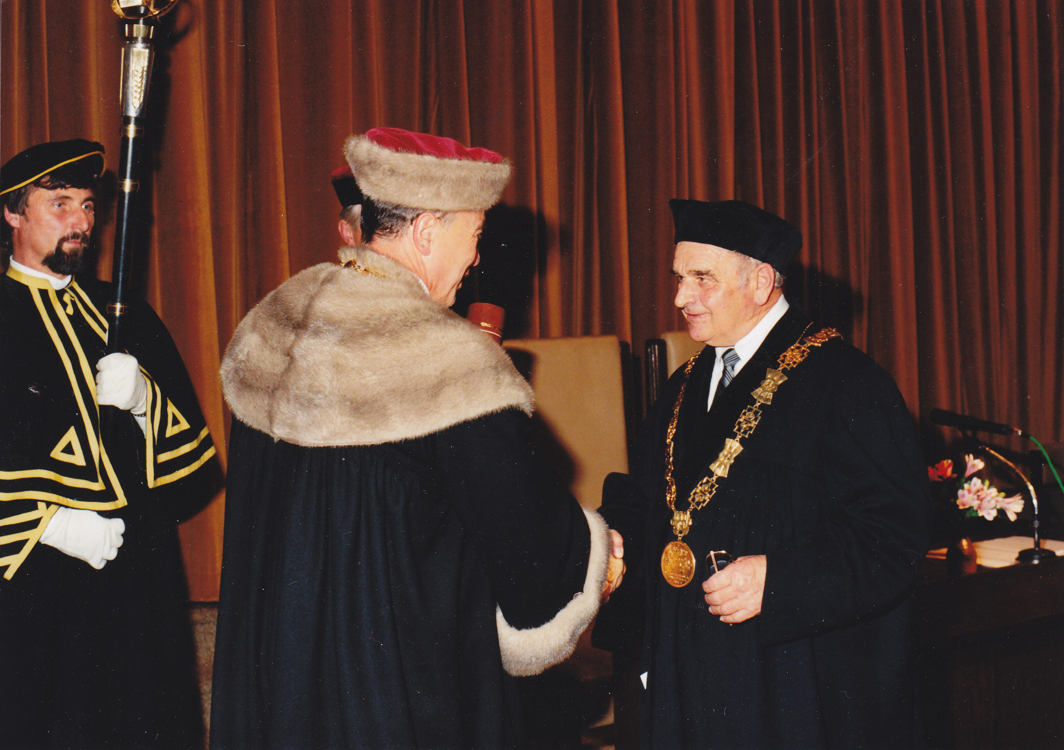 Honorary degree, Prague University of agriculture